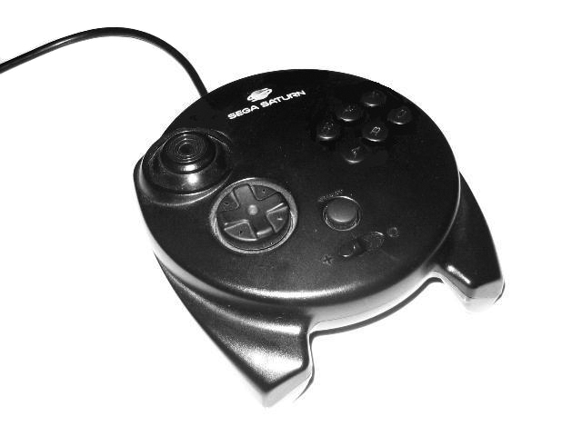 The analog controller of the Sega Saturn videogame system. The analog controller was an optional accessory for the Sega Saturn that replaced the Saturn's standard 8-way directional controller. The 8-way pad was retained on the analog controller for use with games that did not support the analog input. (I have taken this photograph myself. The white background was achieved using a whiteboard.)